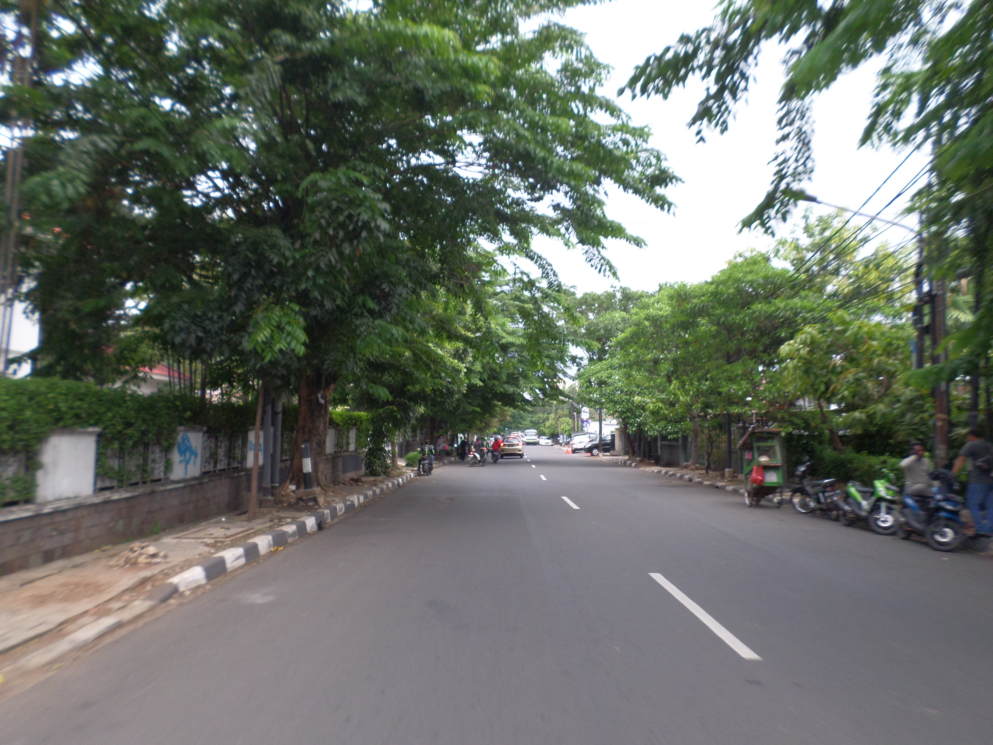 Duren Tiga, Pancoran, South Jakarta, Jakarta, IndonesiaBahasa Indonesia: Duren Tiga, Pancoran, Jakarta Selatan, Jakarta, Indonesia